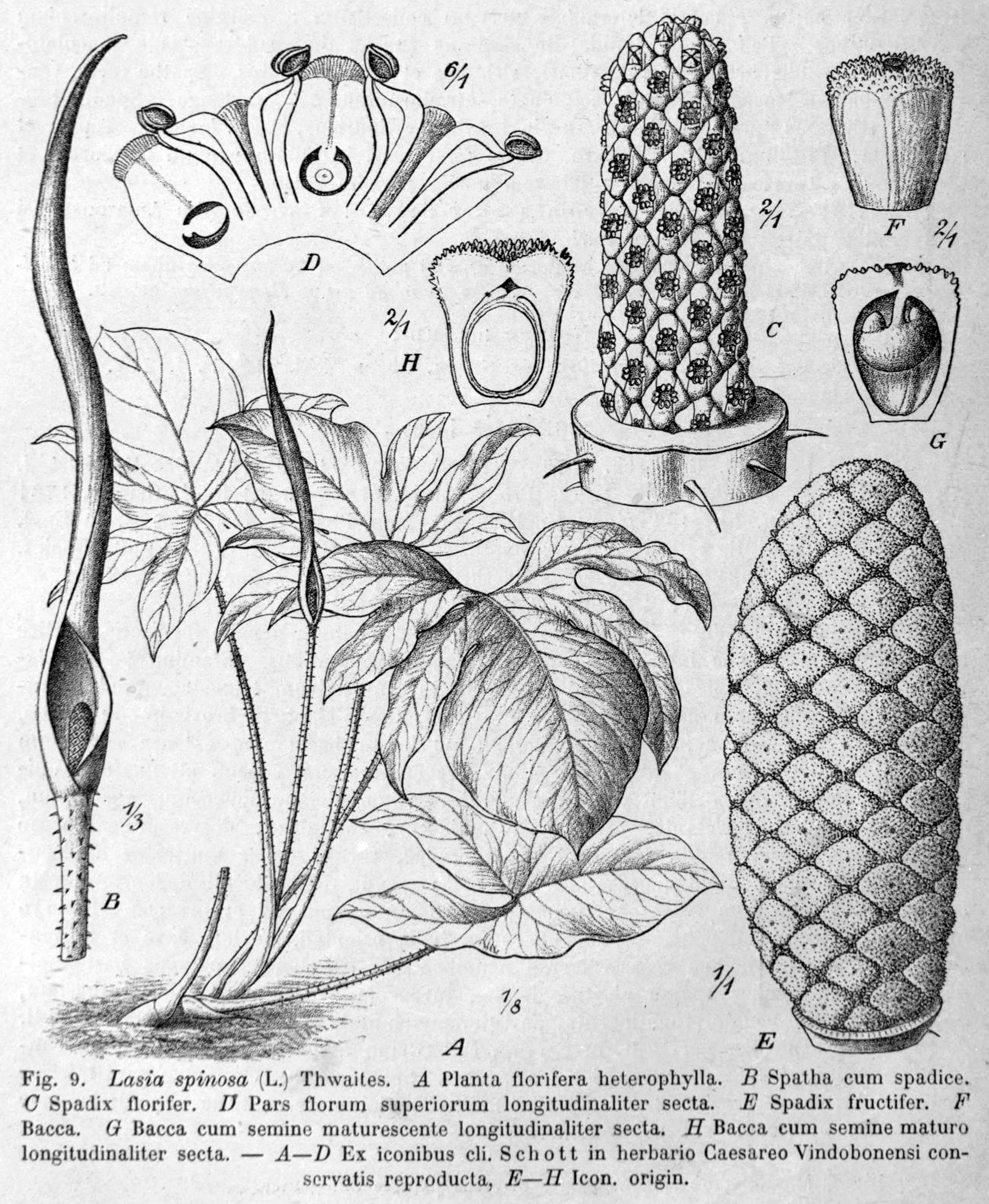 Lasia spinosa botanical drawing